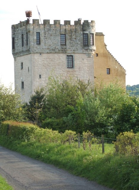 Des Res Super tower and house block on minor road off the B9124.